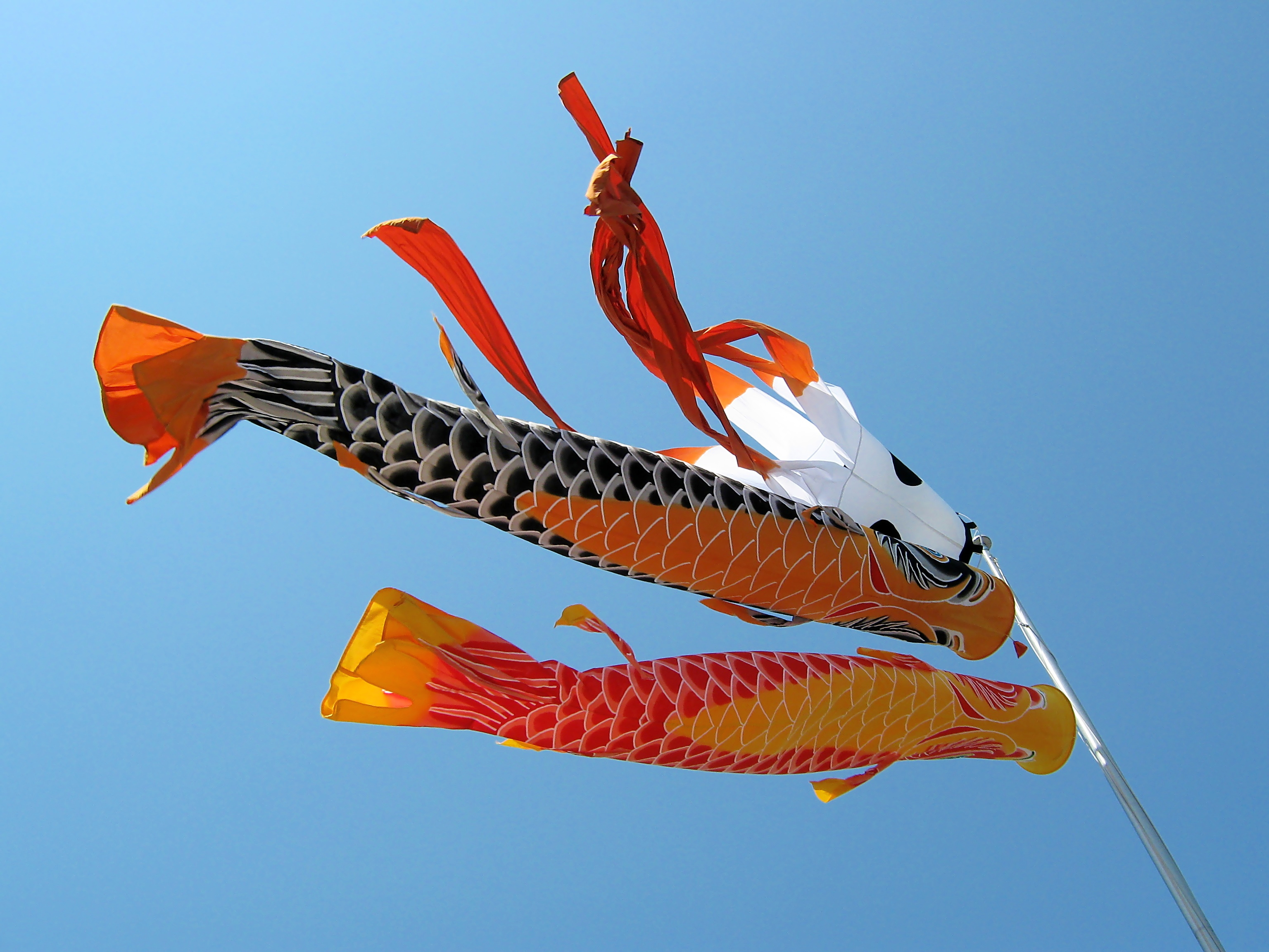 In Apr/May 2009, I took 15 days to walk all the way from Tokyo to Kyoto, roughly following the 546km long, ancient highway, the Nakasendo, alone. This picture was taken during the free week I had in Japan after the walk. Read about my preparations and my time in Japan at .